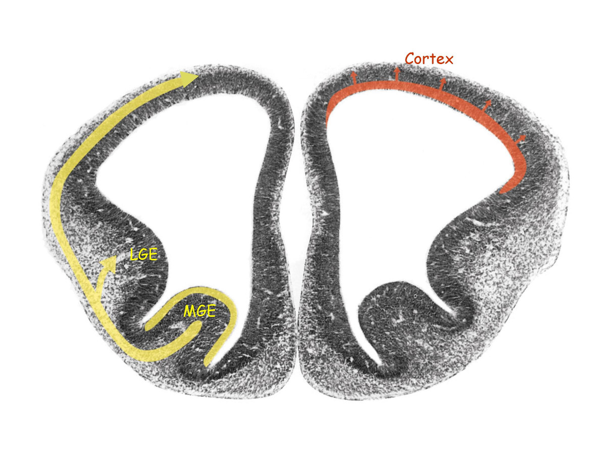 Coronal section in the forebrain of an embryonic mouse at 12.5 days of gestation (preplate stage), showing the lateral and medial ganglionic eminences (LGE, MGE) from which GABAergic interneurons migrate to the cortical anlage (left, yellow). Glutamatergic neurons destined for the cortex are generated locally in the cortical ventricular zone and migrate radially (right, red). Courtesy of V. Pachnis. from the article What makes us human? A biased view from the perspective of comparative embryology and mouse genetics André M Goffinet Journal of Biomedical Discovery and Collaboration 2006, 1:16doi:10.1186/1747-5333-1-16